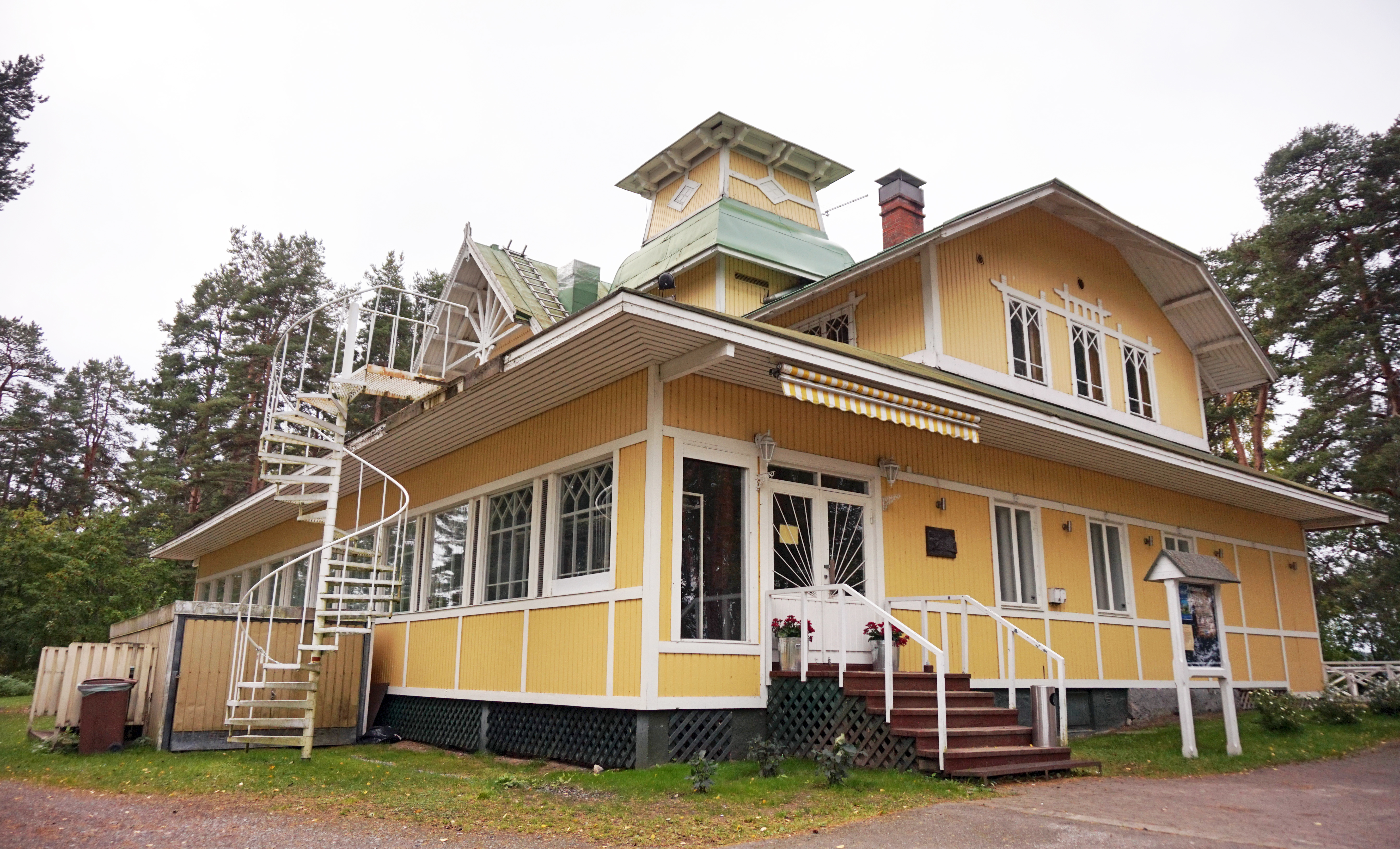 Peräniemi Casino in Kuopio.